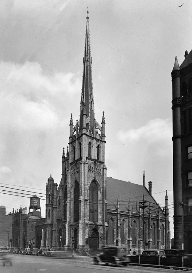 Fort Street Presbyterian Church, Detroit. Gothic revival architecture. Historic American Buildings Survey—HABS image (1934).